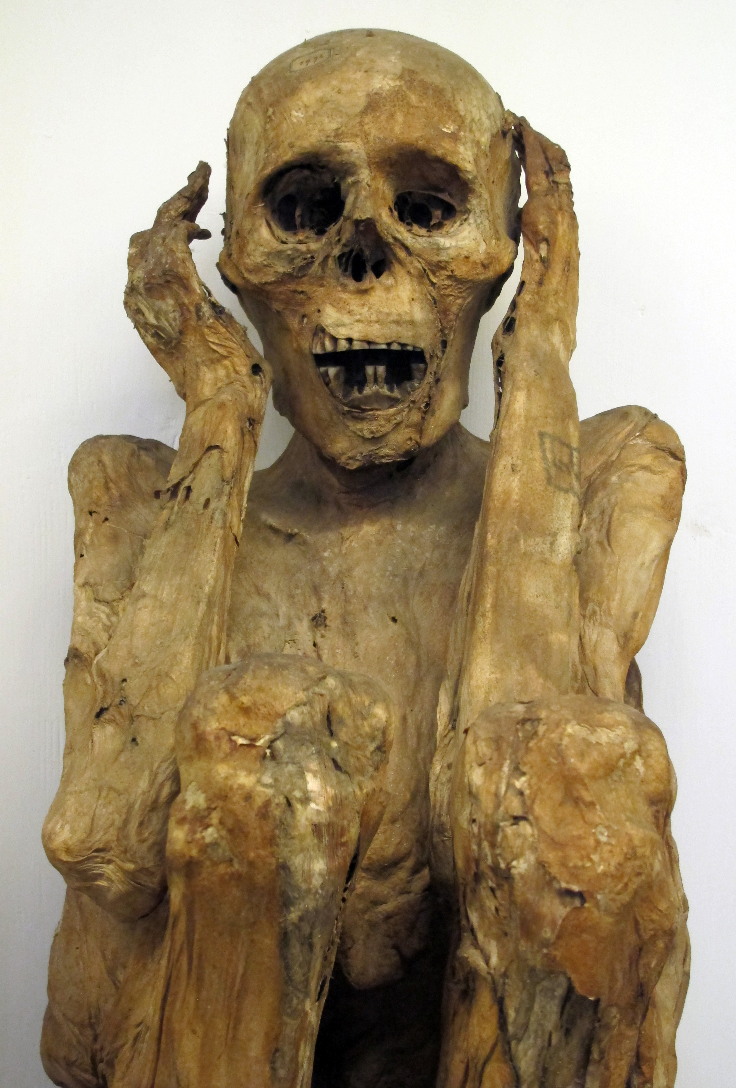 Museo di storia naturale (Florence) - Anthropology and Ethnography section - Peru